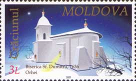 Stamp of Moldova